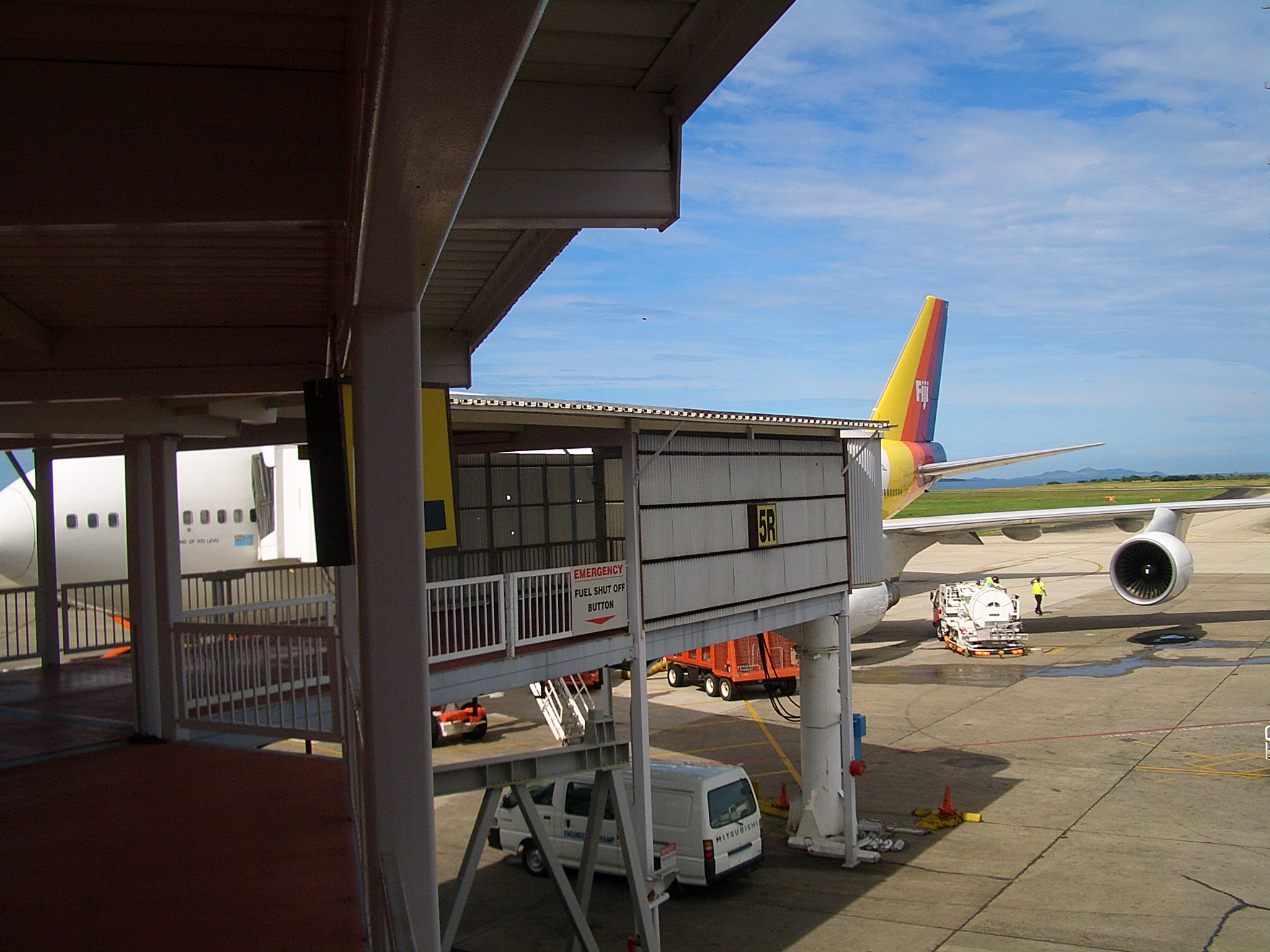 An Air Pacific Boeing 747 at the gate in Nadi International Airport, about to leave for Sydney